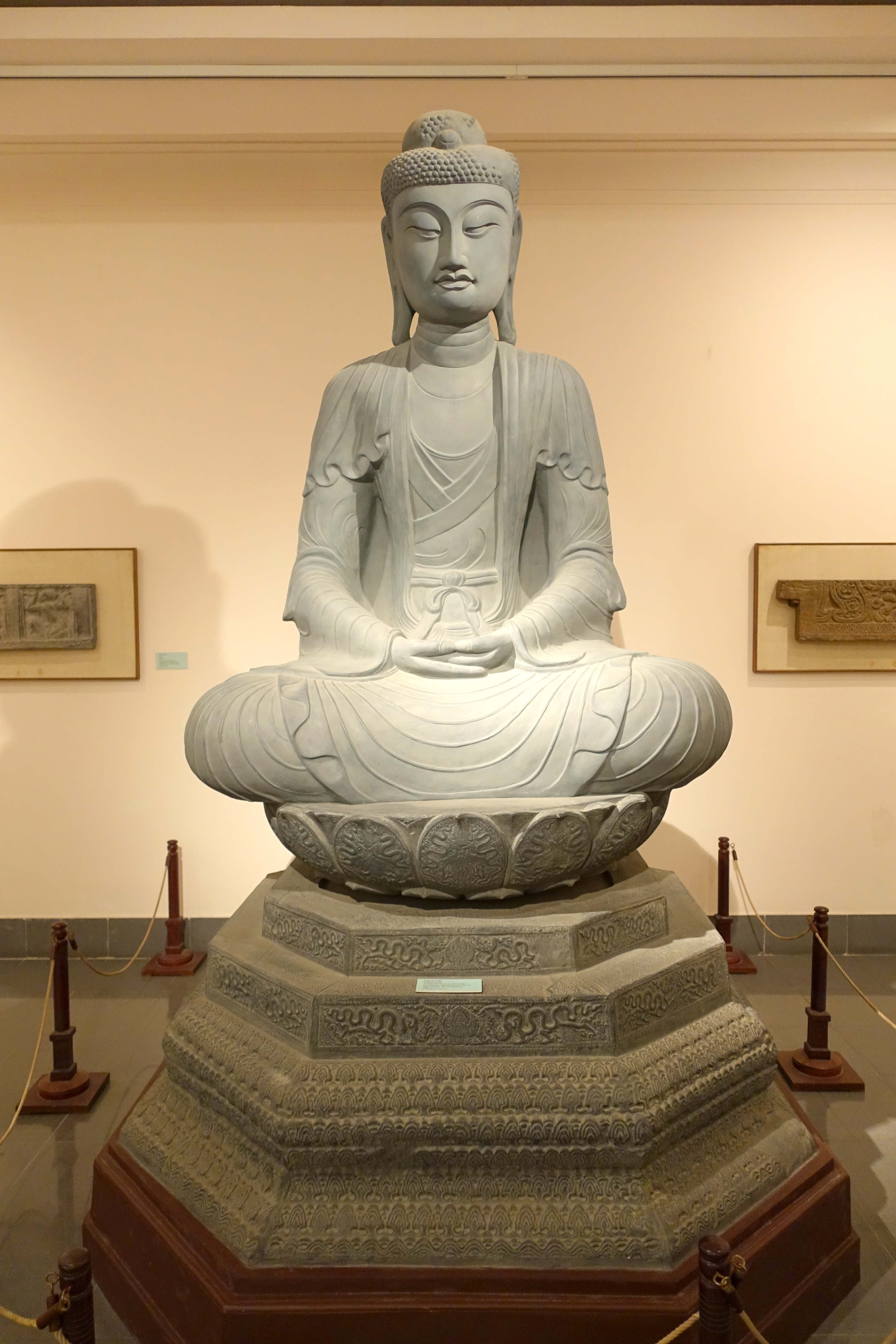 Exhibit in the Vietnam National Museum of Fine Arts - Hanoi, Vietnam. This artwork is old enough so that it is in the public domain.